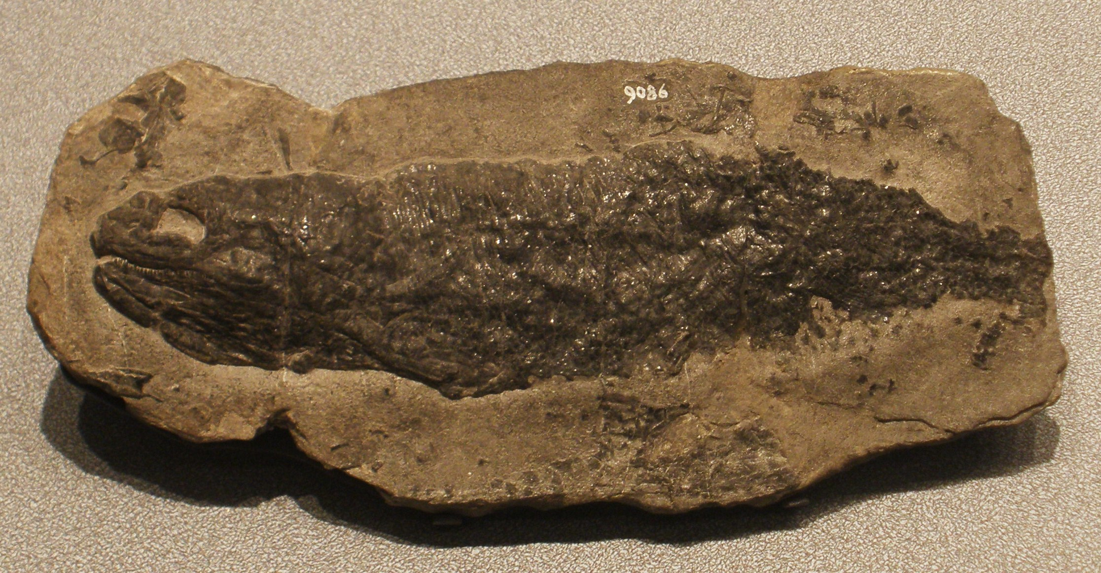 Took the photo at Museo di Storia Naturale di Bergamo